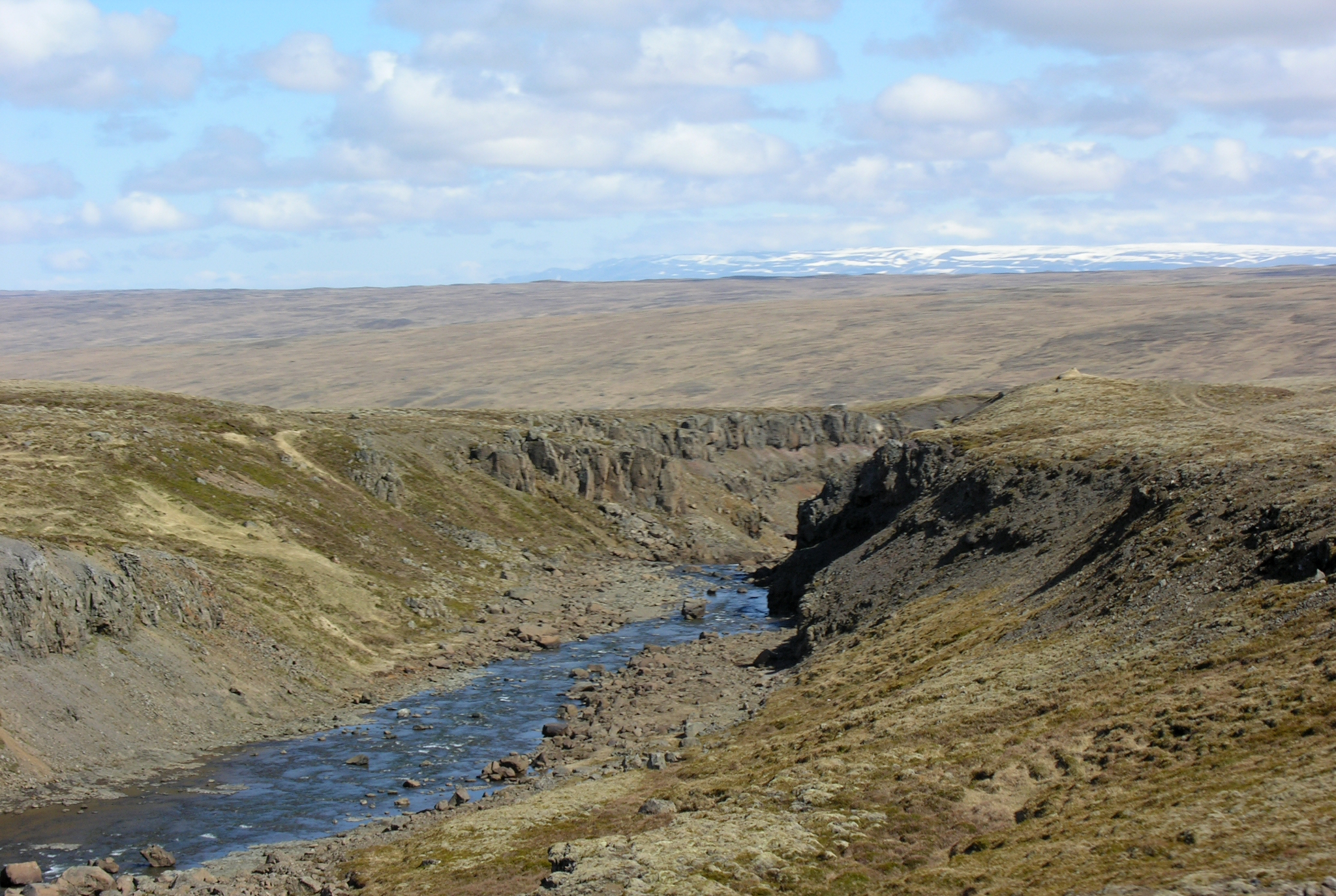 Iceland, views along road Road 1 in Iceland (Hringvegur). Picture is geocoded manually; if someone can contribute to the accuracy, please do so.